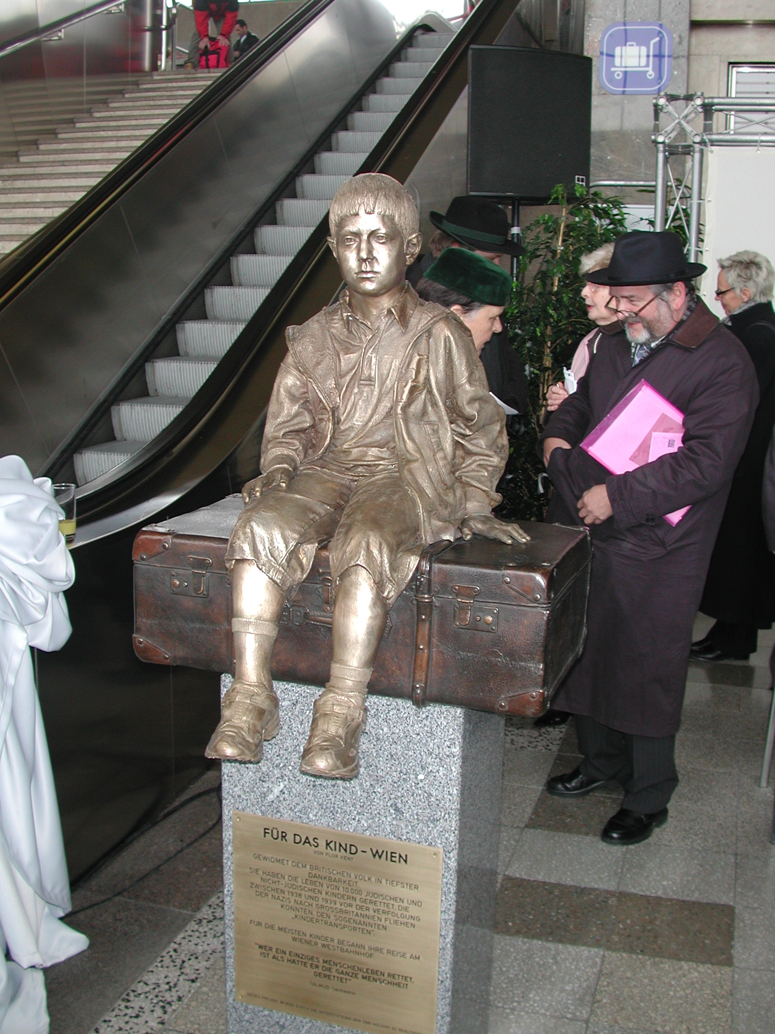 Für Das Kind- Vienna, by Flor Kent. A Tribute to the British People in Wetsbahnhof Station for saving the lives of thousands of children during the onset of WWII. Austrian children left towards Britain from Westbahnhof Station. Hundreds of "Kinder" returned to Vienna for the unveiling in March 2008.